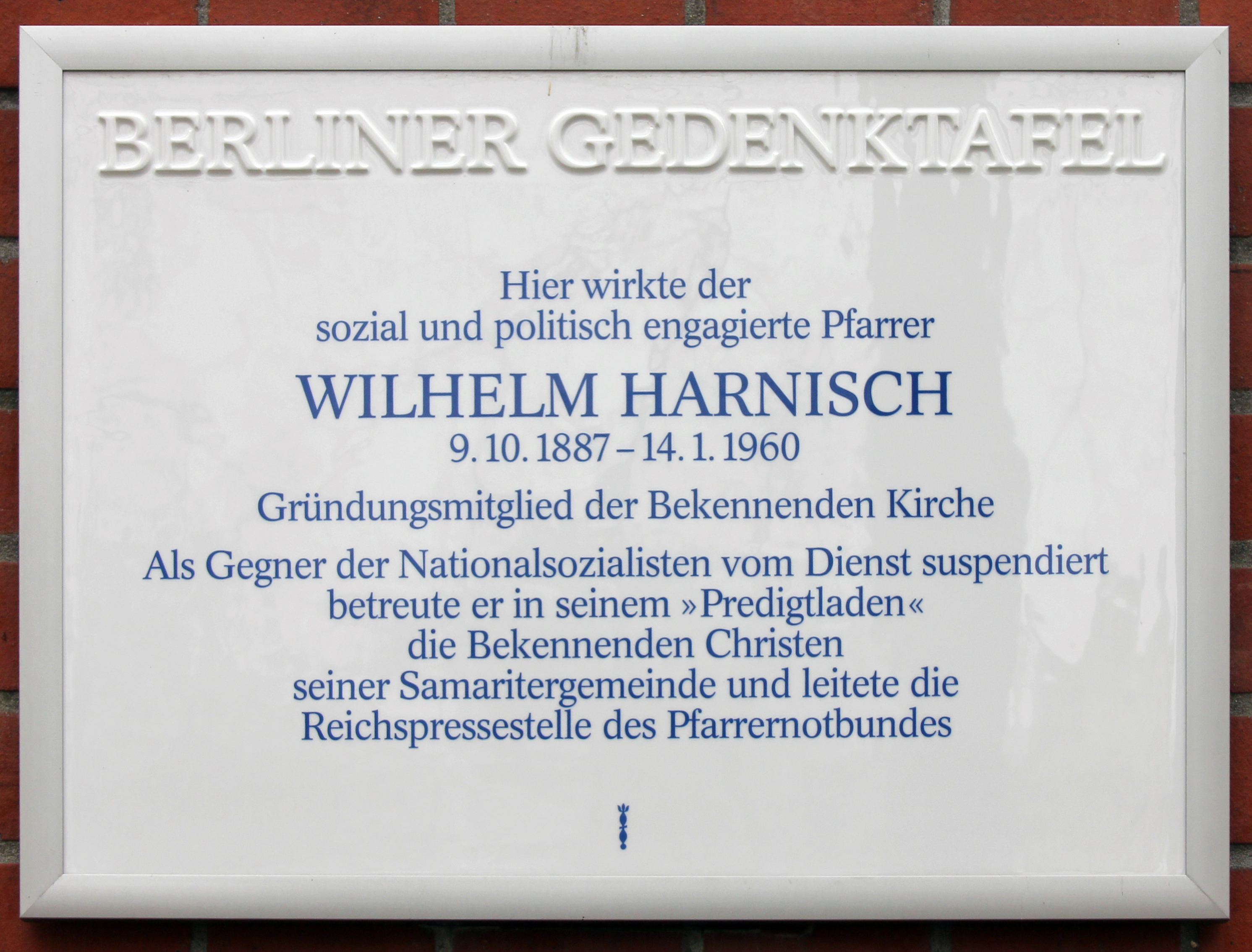 Berlin memorial plaque, Wilhelm Harnisch, Samariterplatz, Berlin-Friedrichshain, Germany